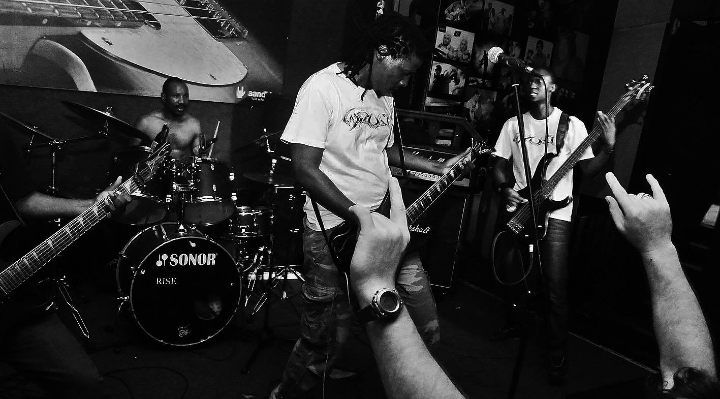 Wrust performing at Aandklas, Stellenbosch